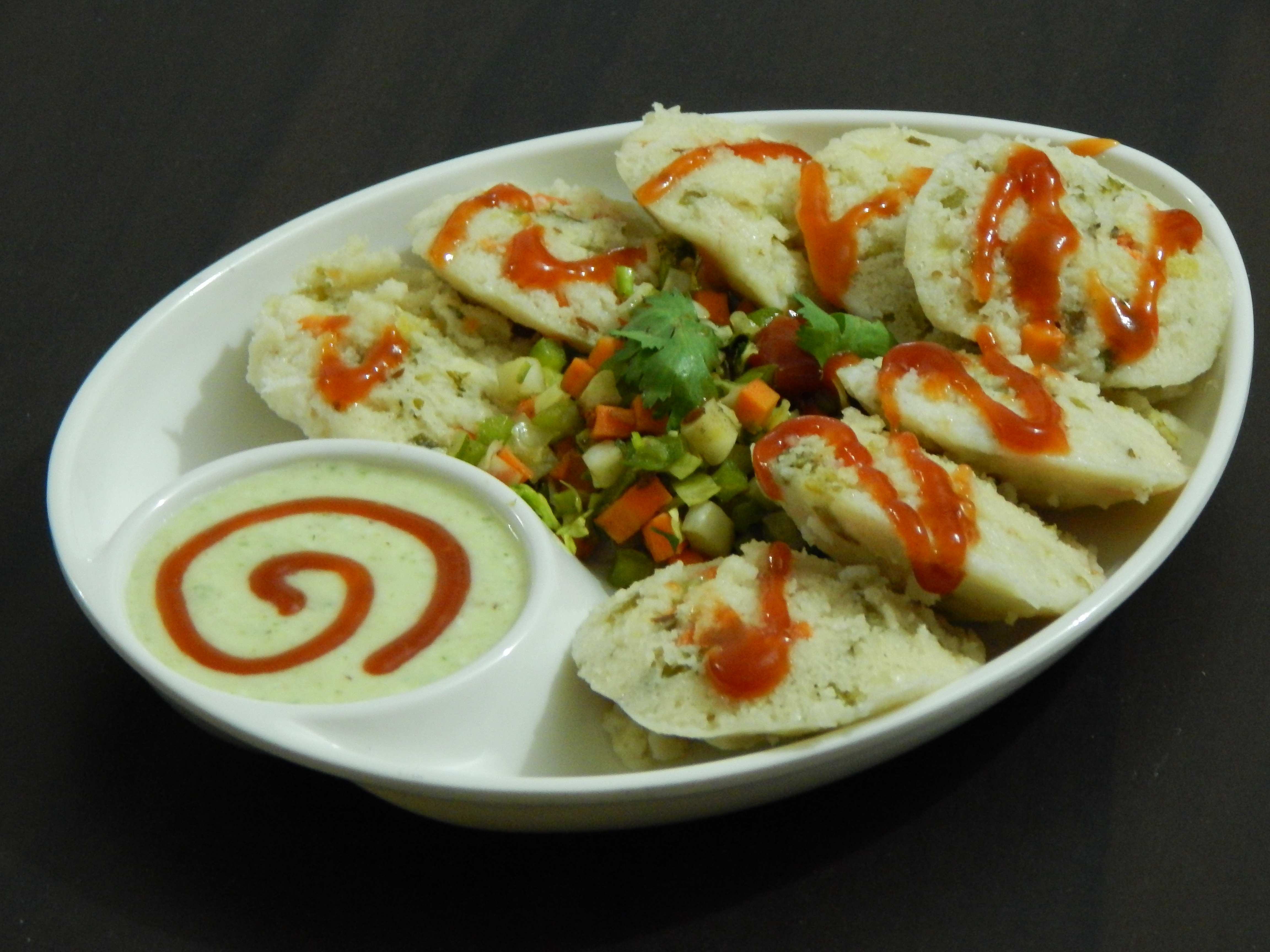 Vegetable Idli - Version of Idli. Best for healthy breakfast